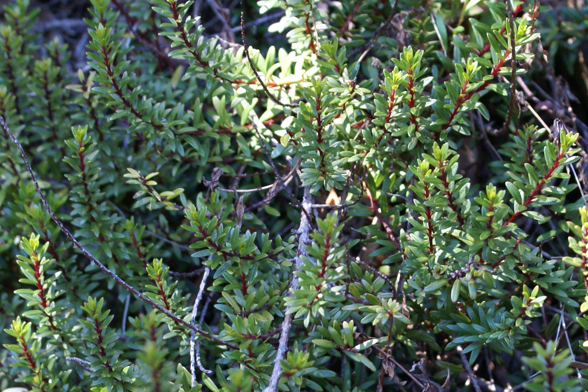 Embelia demissa, species of subshrub endemic to mountain areas of Réunion island